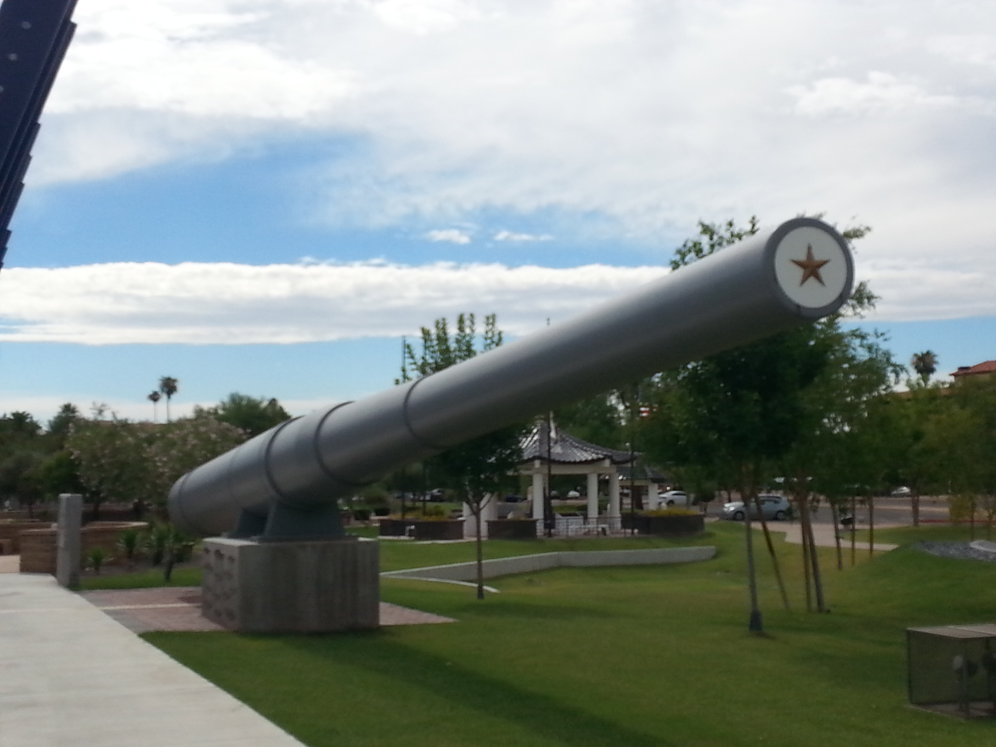 16-inch gun from USS Missouri at World War II memorial, Wesley Bolin Memorial Plaza, Phoenix, Arizona.